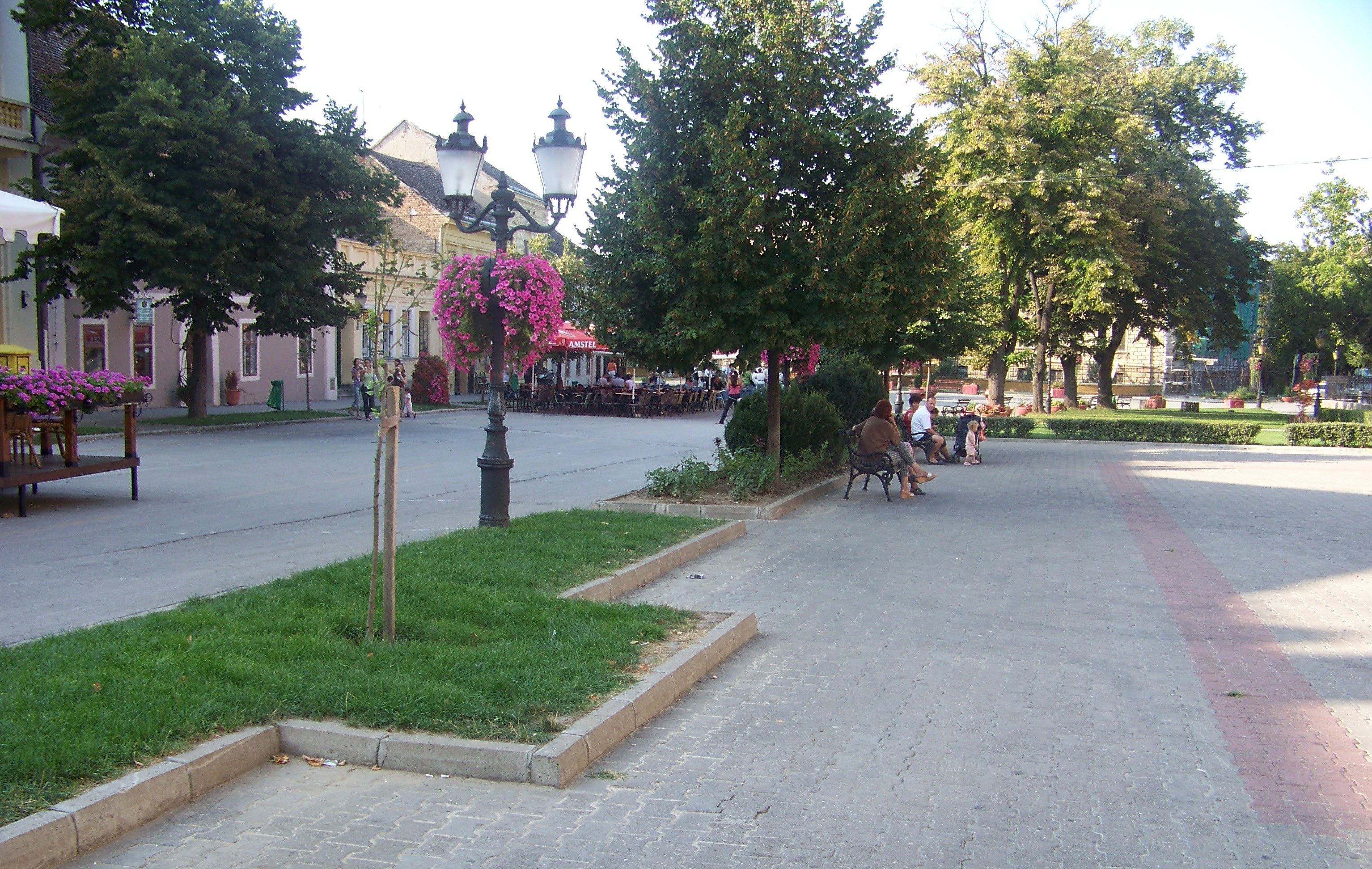 Sremski Karlovci, town square